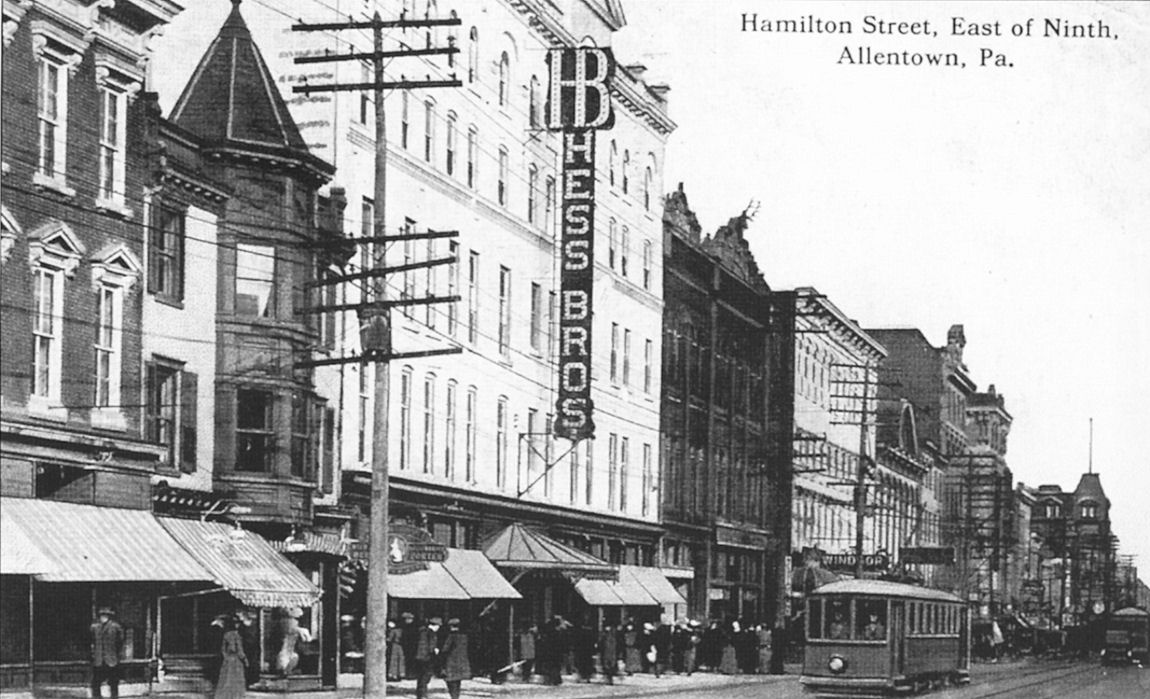 1915 - Hess Brothers with Sign North Side 800 Block Hamilton Street